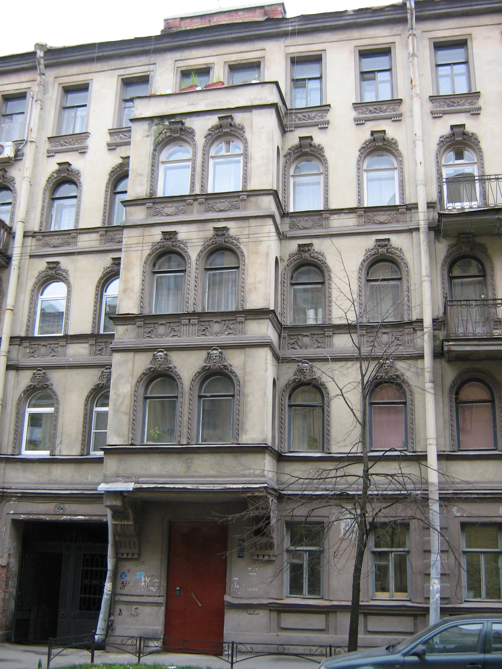 Gatchinsraya st., 10 (Saint-Petersburg, Russia). Architect Otton Ignatovich, 1910.